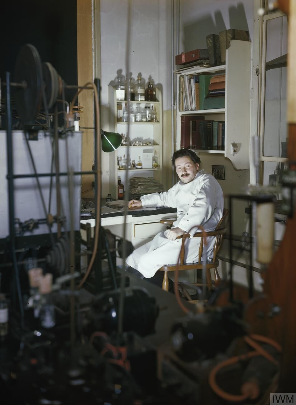 The Synthetic Production of Penicillin during the Second World War One of the scientists involved in the search for a method of producing penicillin synthetically, Dr E B Chain of the Sir William Dunn School of Pathology at Oxford.